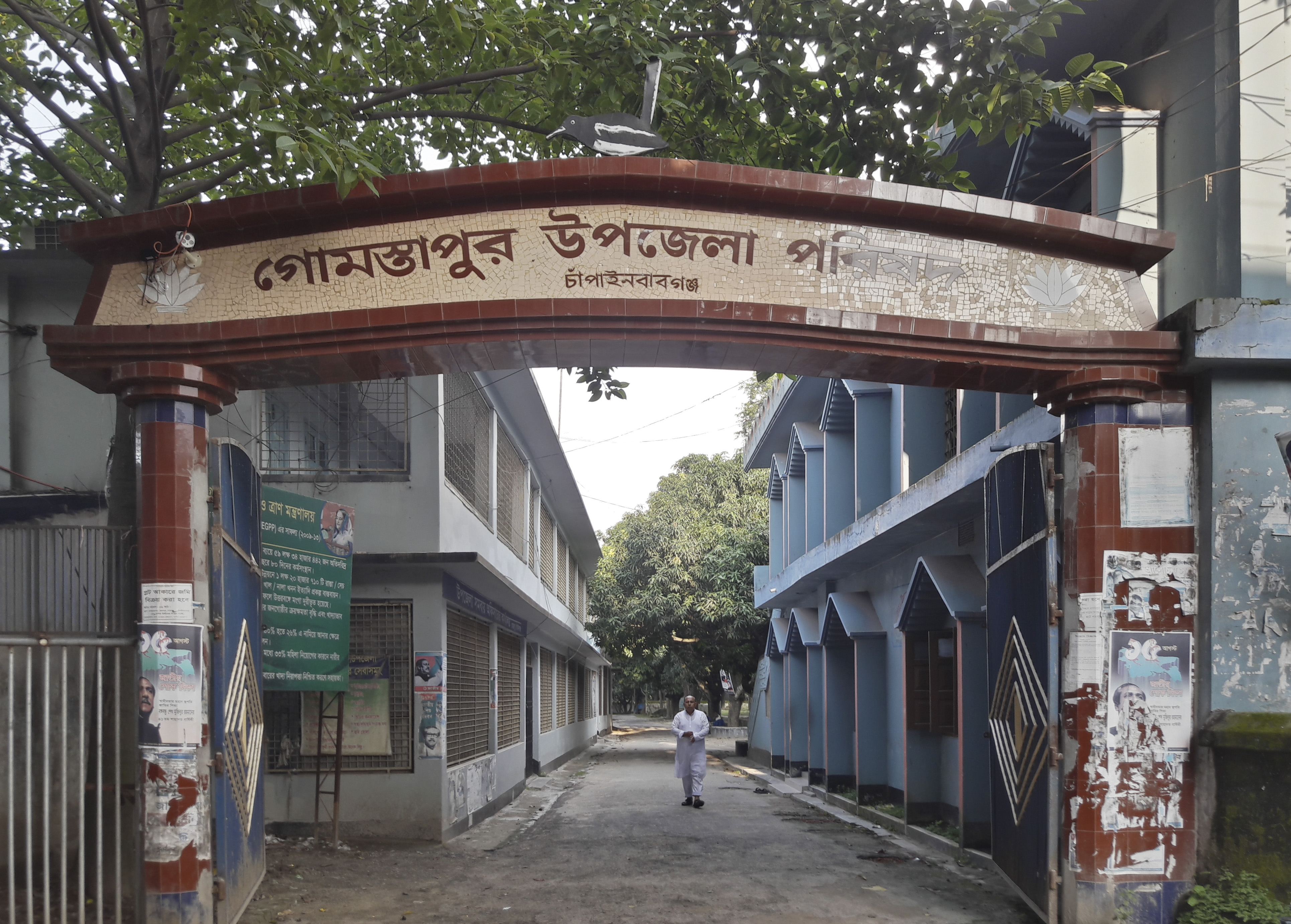 Gomastapur Upazilla Parishad, Rohanpur